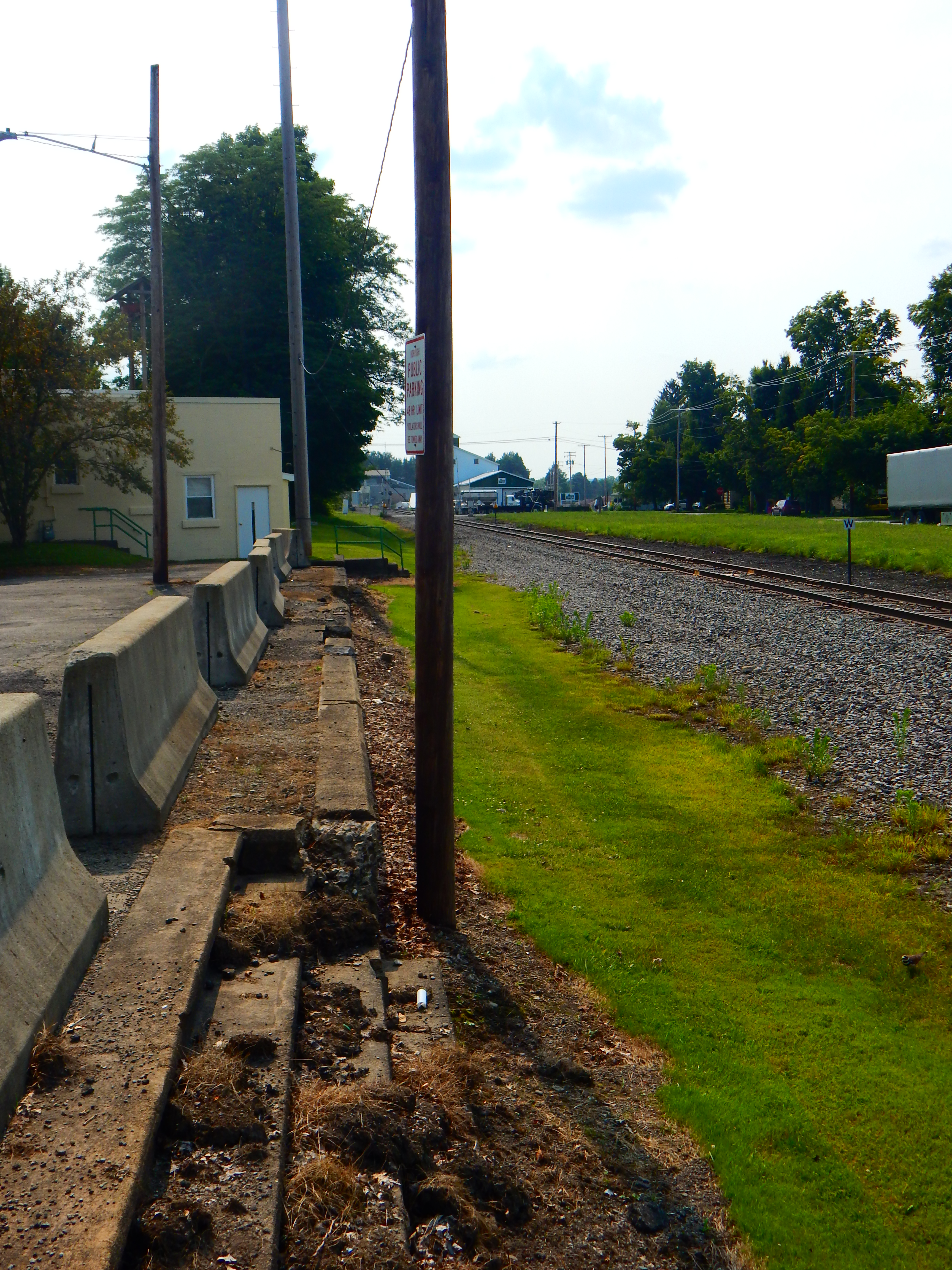 The former platform and stairs for the Cambridge Springs station for the Erie Railroad in Cambridge Springs, Pennsylvania.